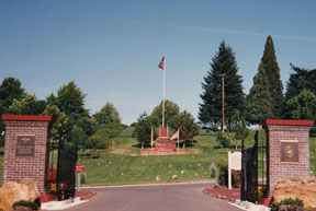 Eagle Point National Cemetery Gates